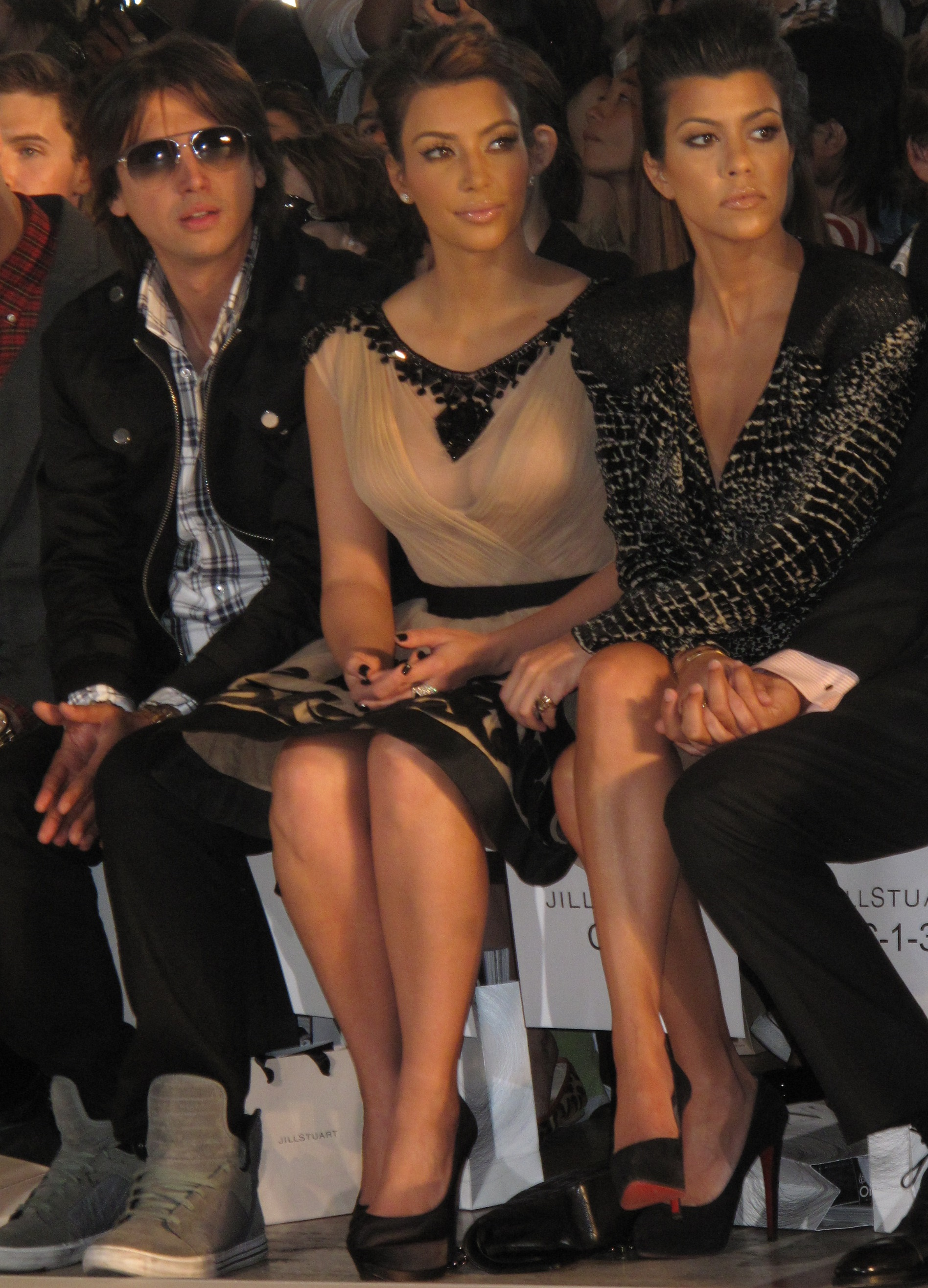 Jonathan Cheban with Kim & Kourtney Kardashian in 2010